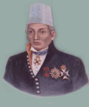 Pakubuwono VIII